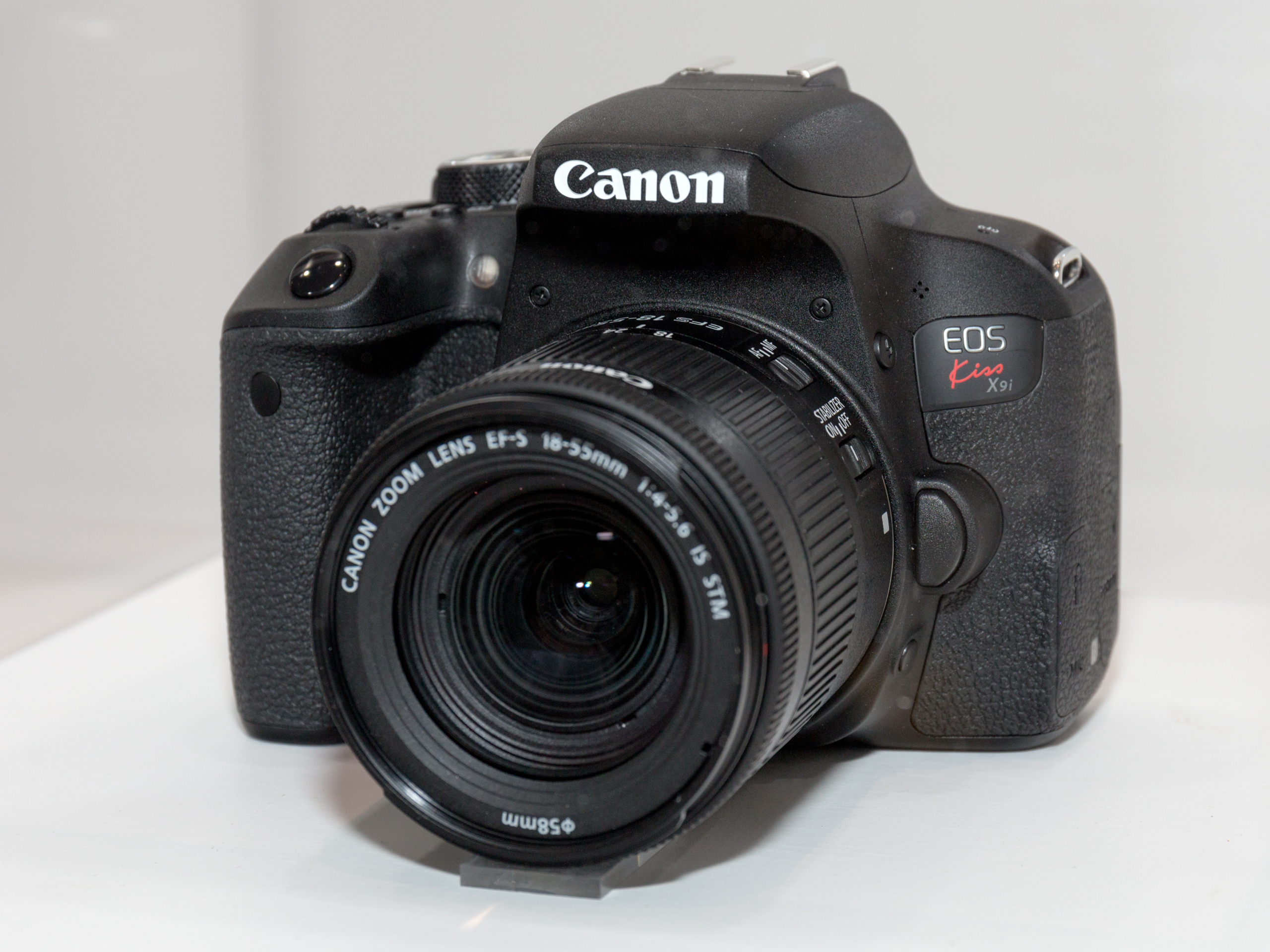 CP+ 2017: 2017 Canon EOS Kiss X9i